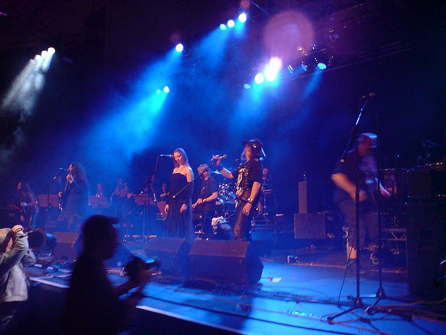 German symphonic metal band Haggard at the 2007 ProgPower UK festival in Cheltenham